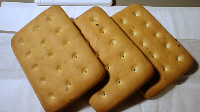 "Biscuit large emergency food Maritime Self-Defense Force: Japanese." ("Mintia" box included for size comparison.)